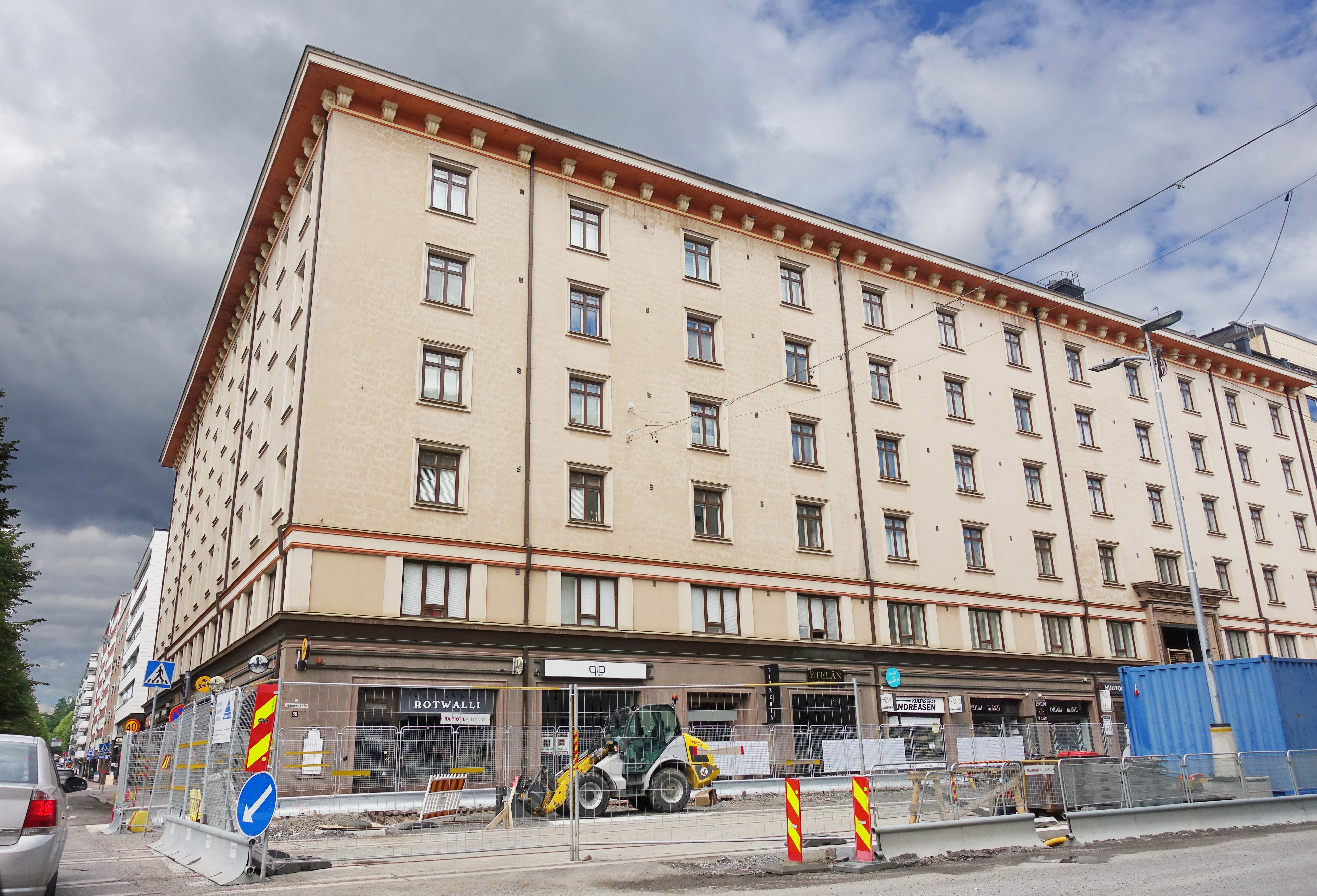 Hämeenkatu 30 in Tampere, Finland.